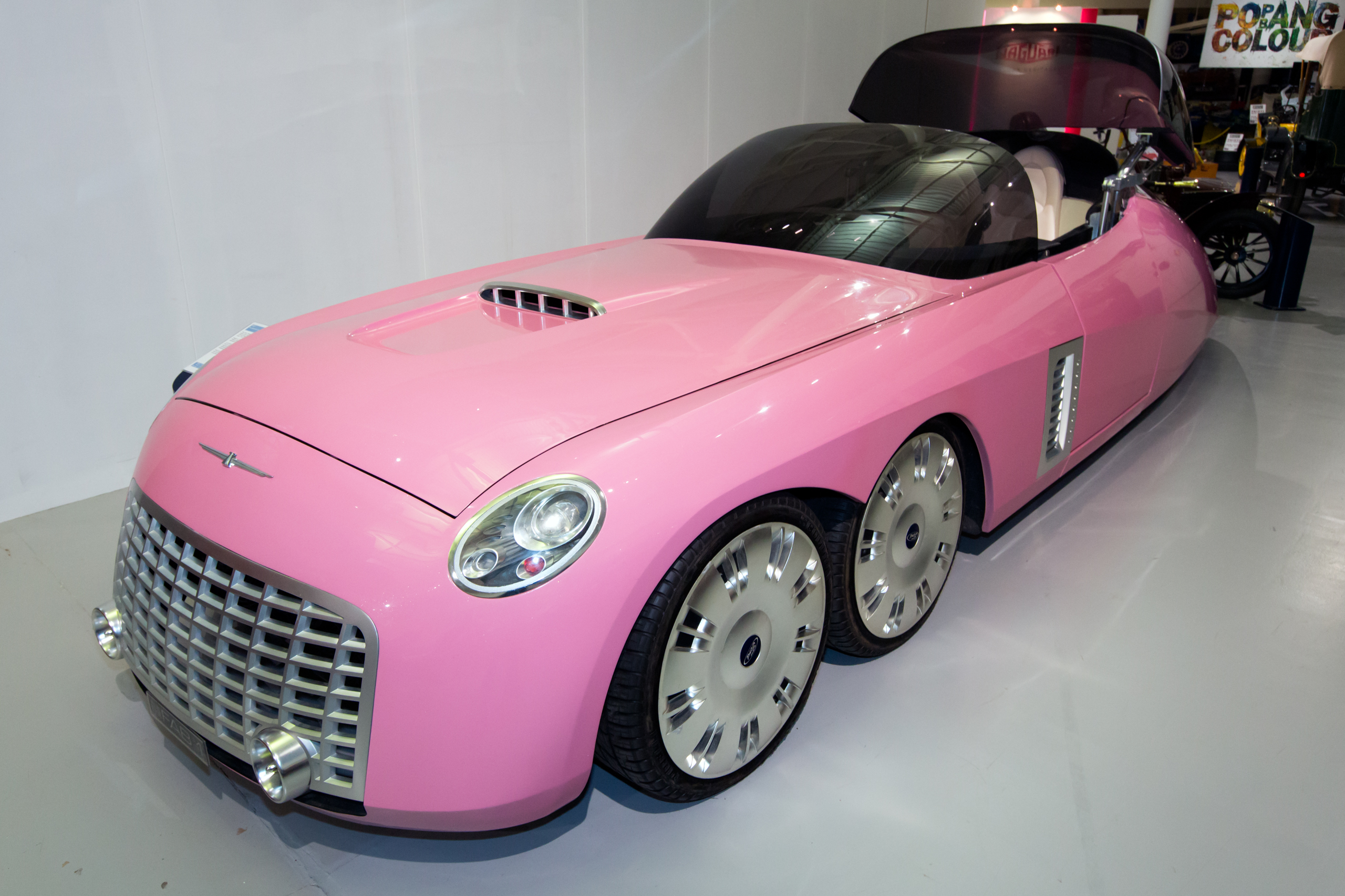 FAB 1 from 2004 film "Thunderbirds"